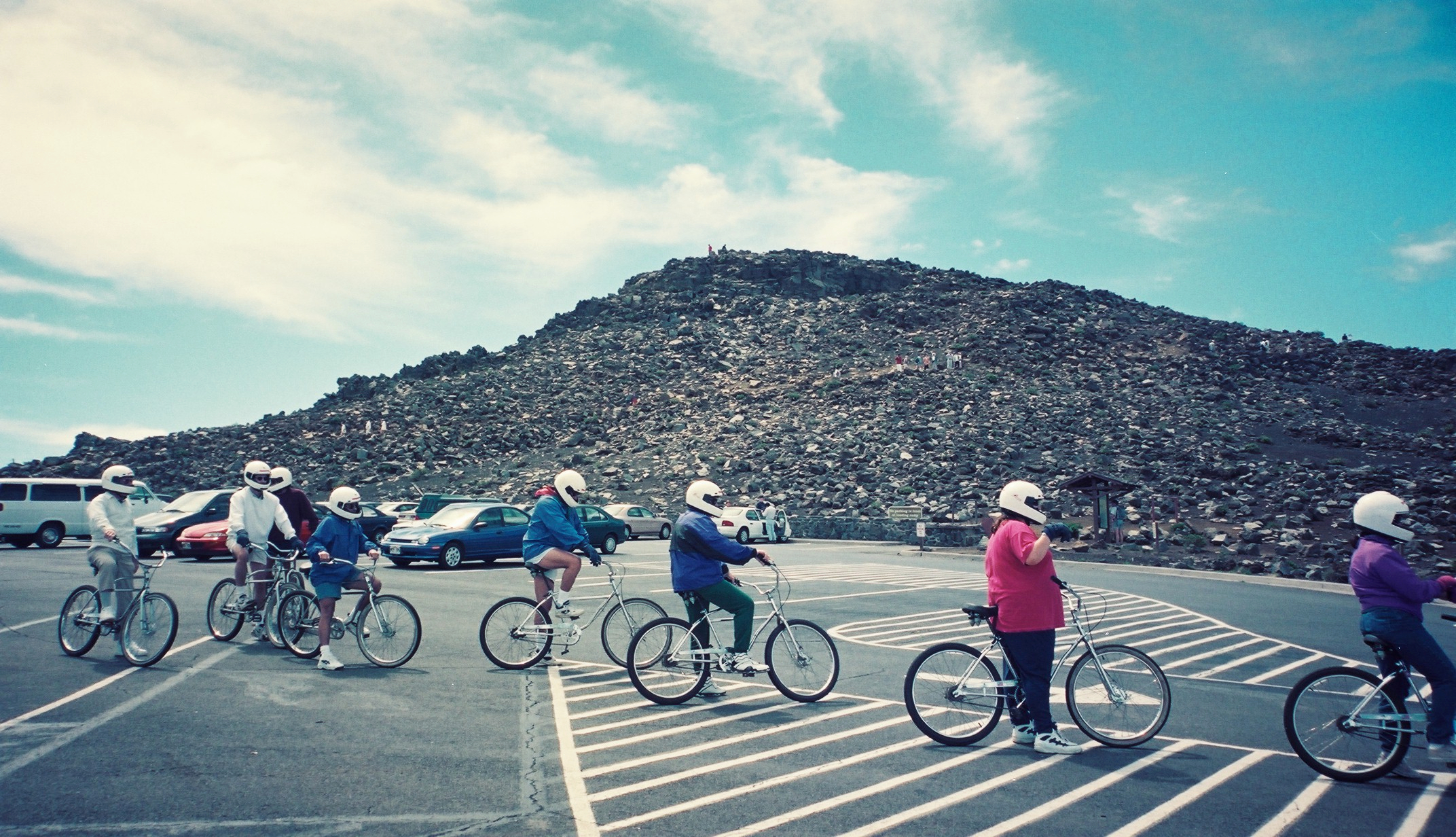 Road Bike People in Red Hill